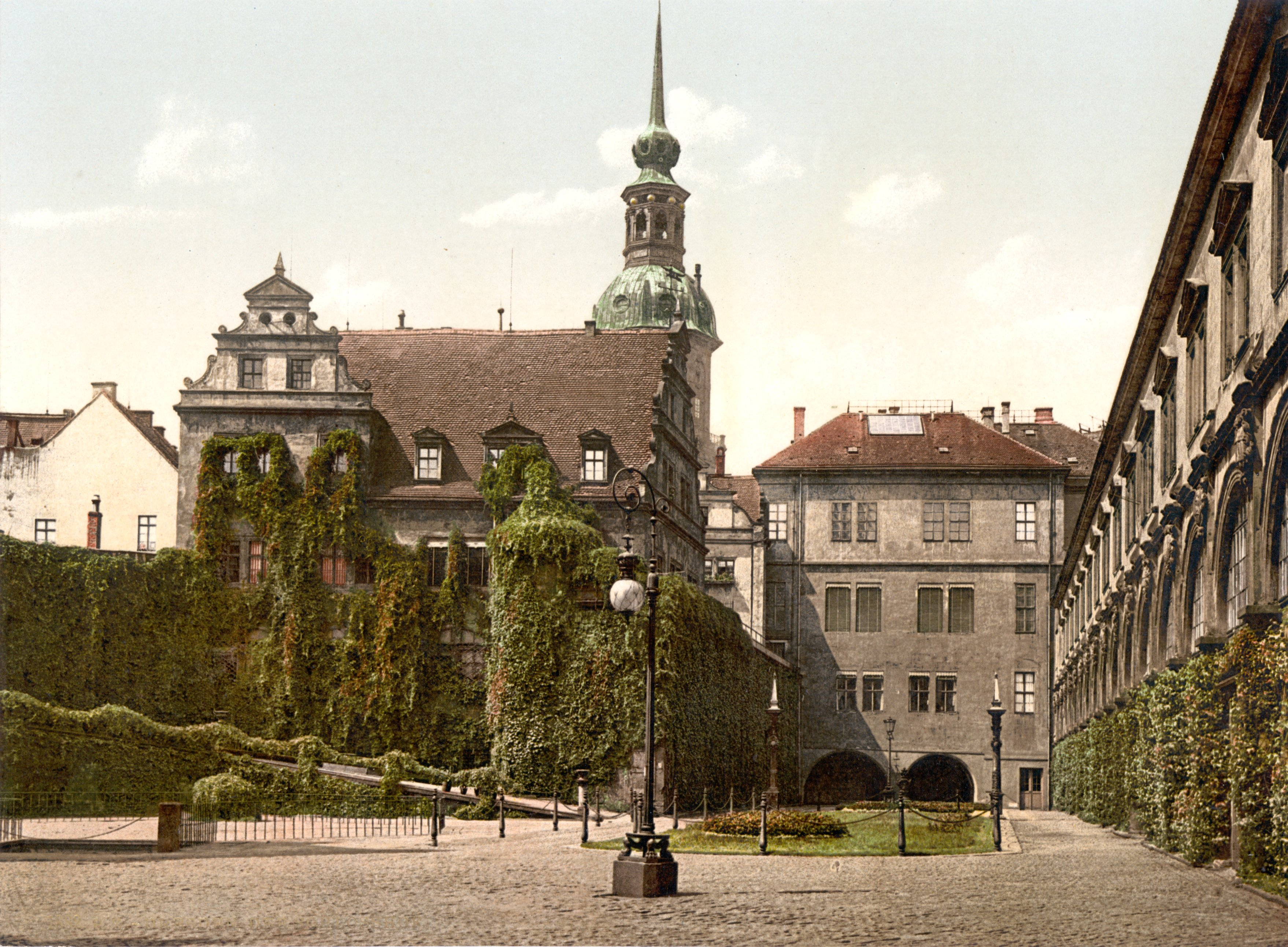 Dresden (Saxony, Germany) - Residenzschloss (royal castle)